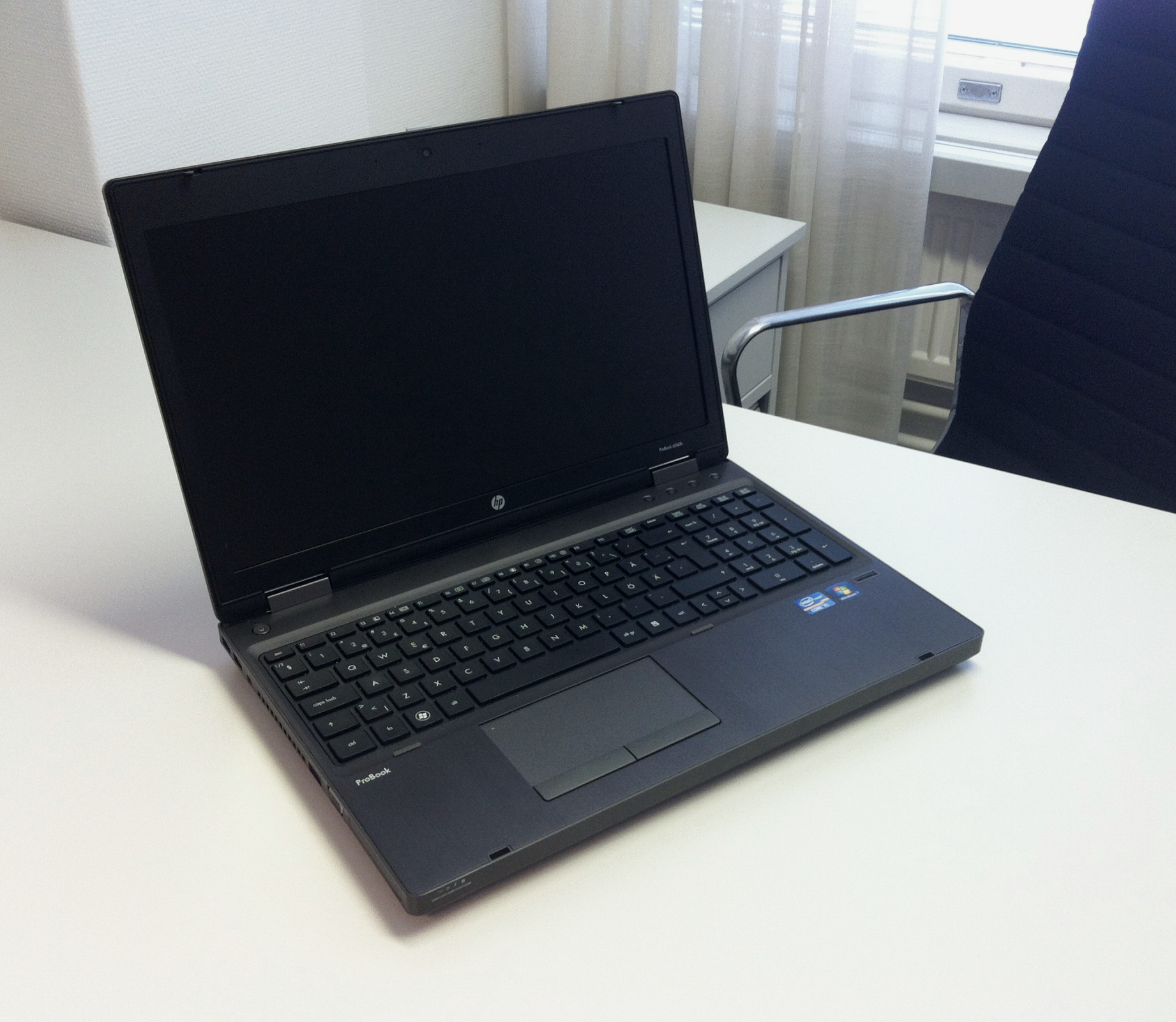 HP ProBook 6560b mobile workstation